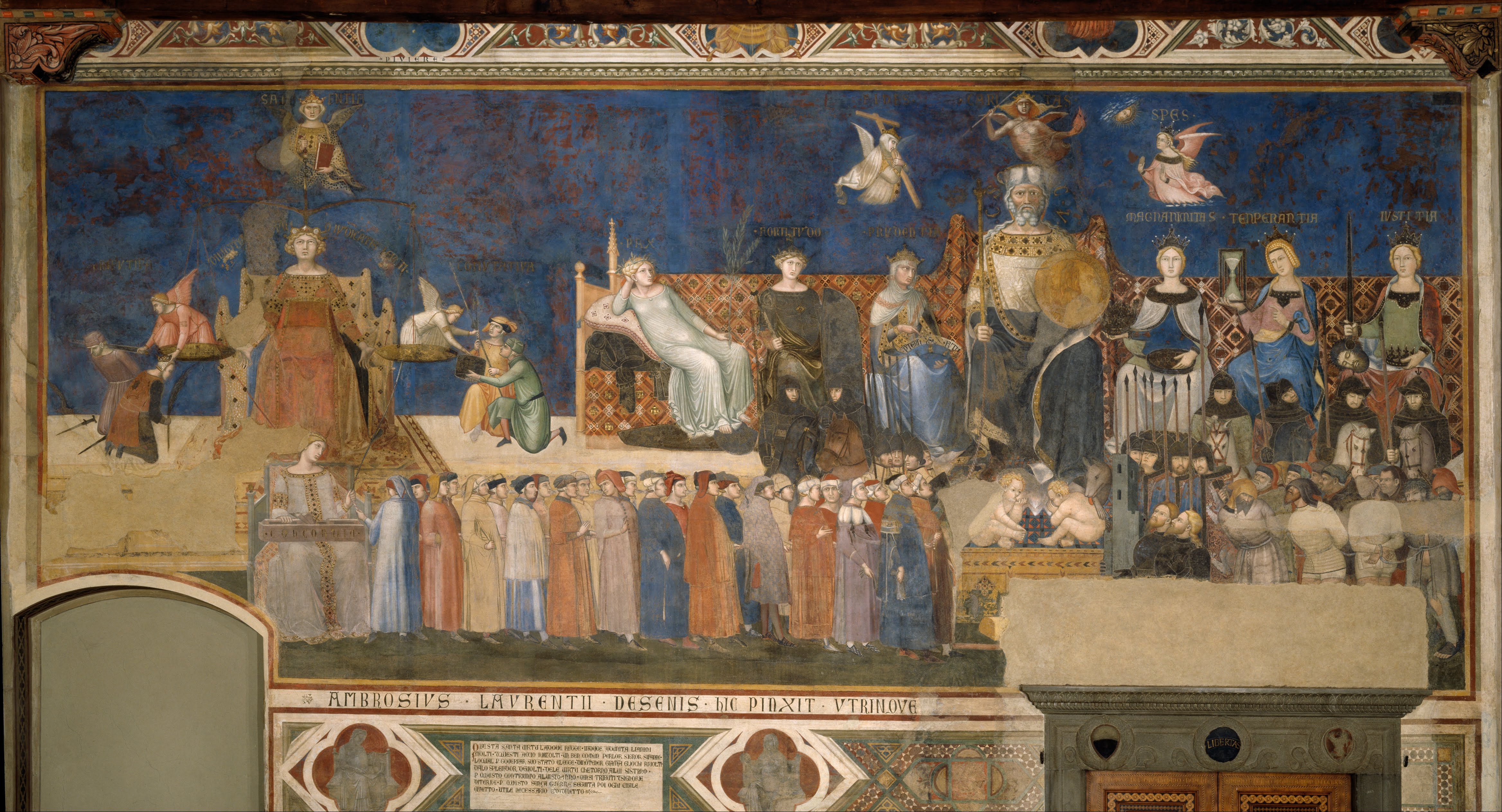 Good Government is represented by a bearded, stately figure sitting on a throne. Next to him are the four cardinal virtues, Fortitude, Prudence, Justice, and Temperance, joined here by Peace and Magnanimity.